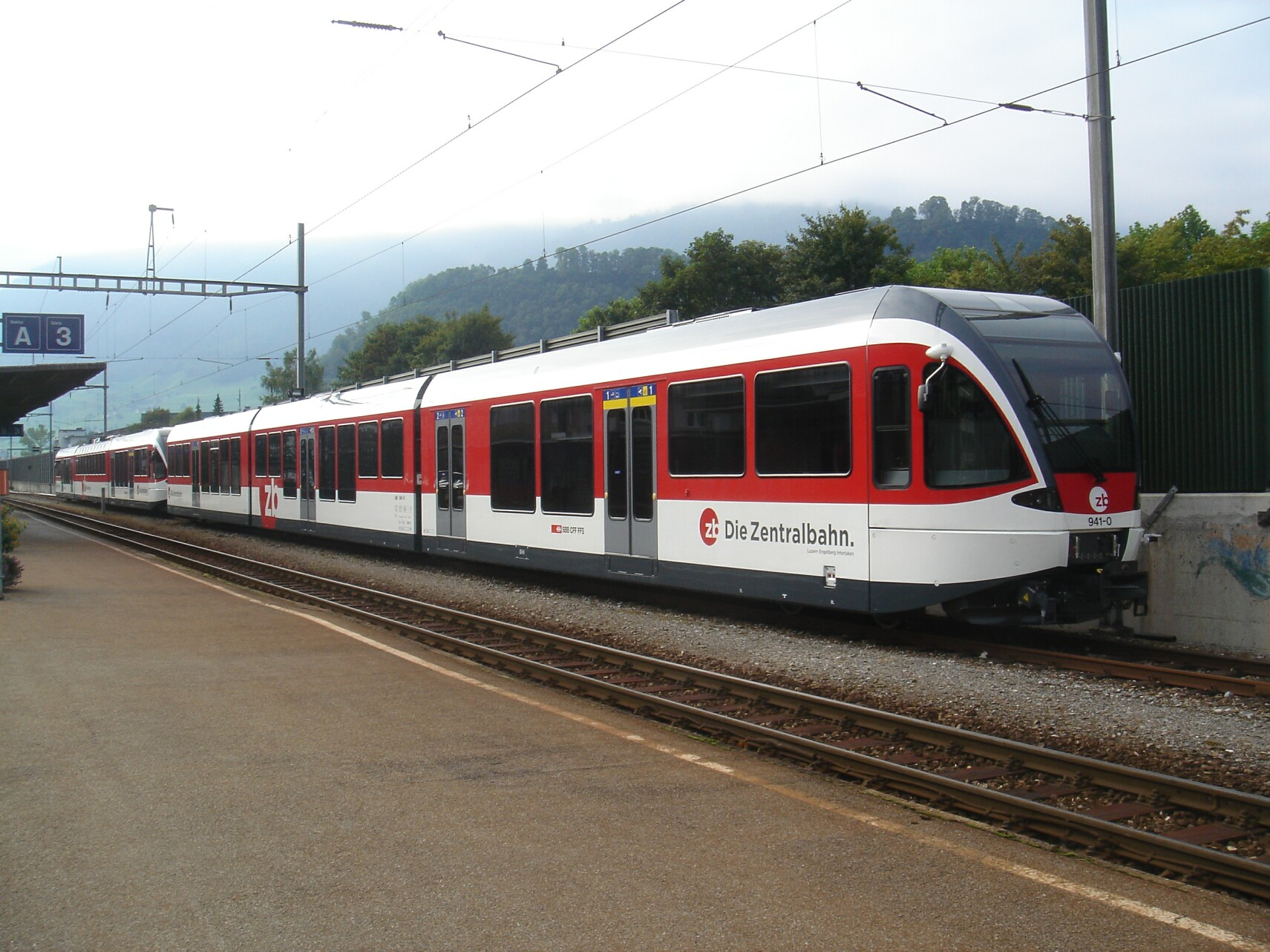 Articulated driving trailer ABt8 941 of Zentralbahn stands in Stansstad together with SPATZ EMU ABe 130 007